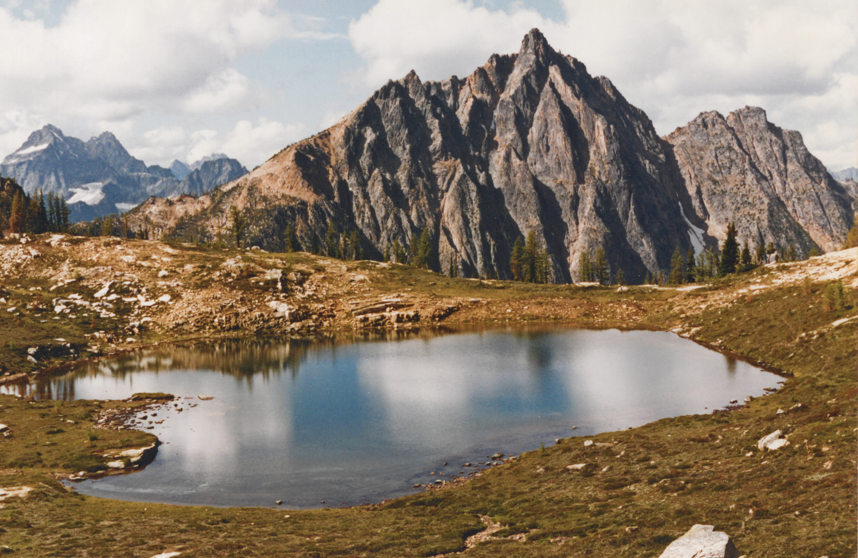 Mount Hardy with Upper Snowy Lake in August 1993. The North Cascades mountains of Washington state